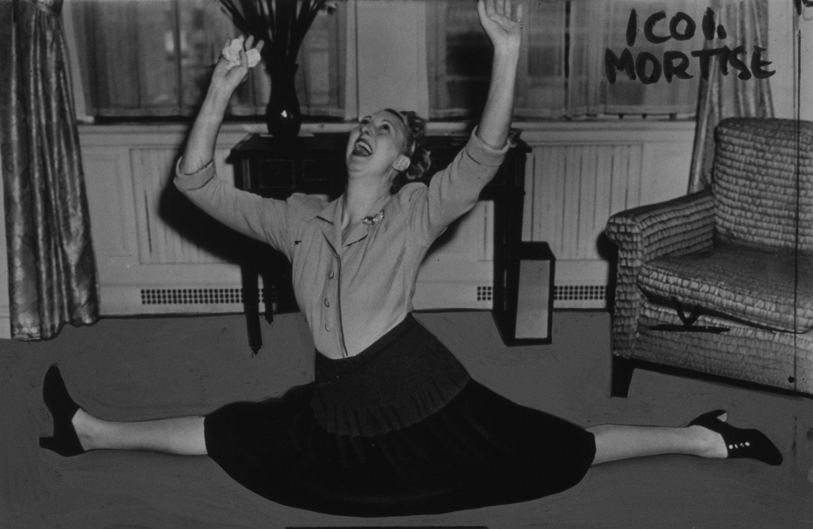 Frances Charlotte Greenwood ( 25 June 1890 - 18 January 1978) was an American actress born in Philadelphia, Pennsylvania. (This summary was created using Commons SumItUp) Charlotte_Greenwood